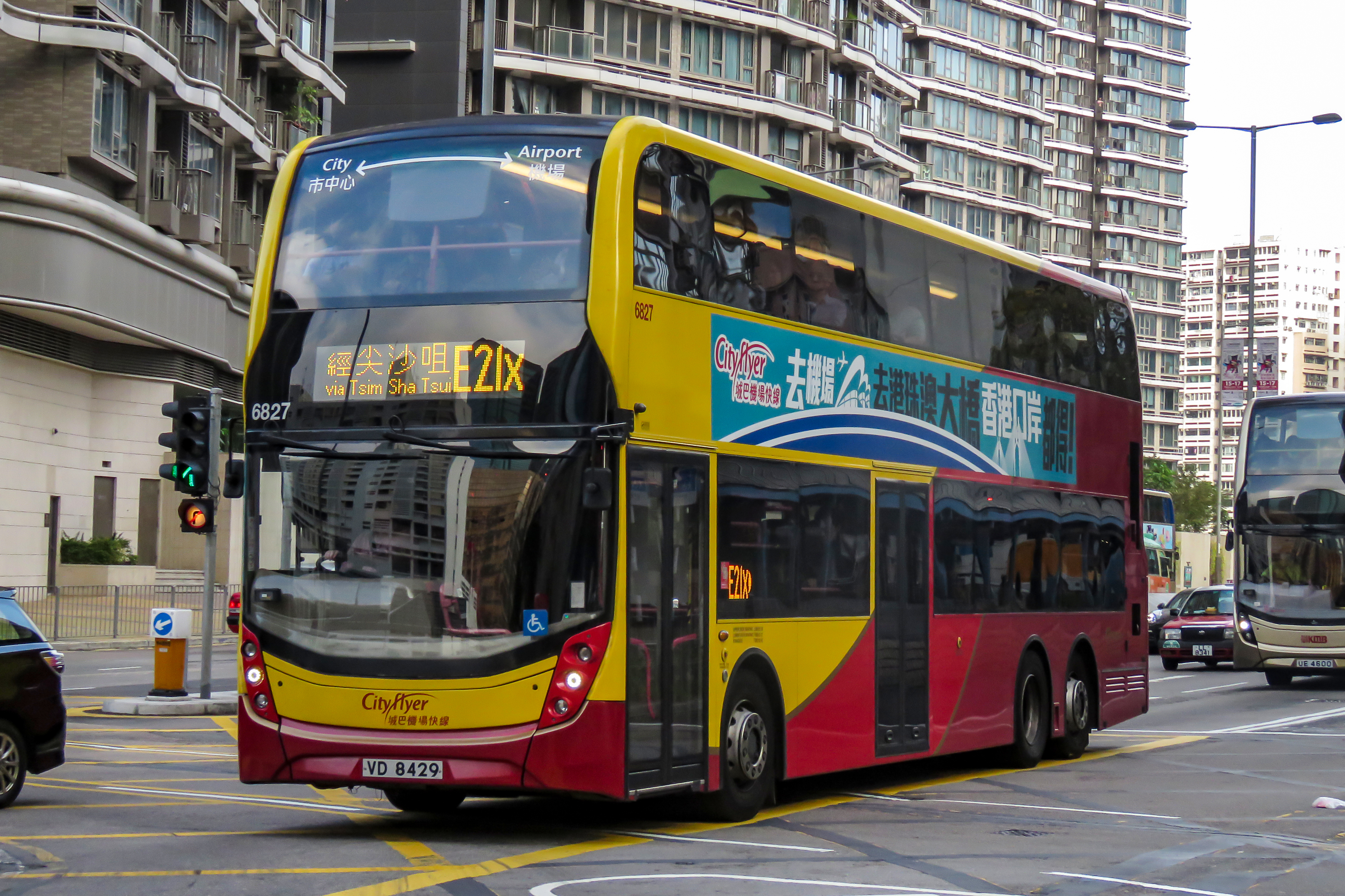 Big Cityflyer on E21X.